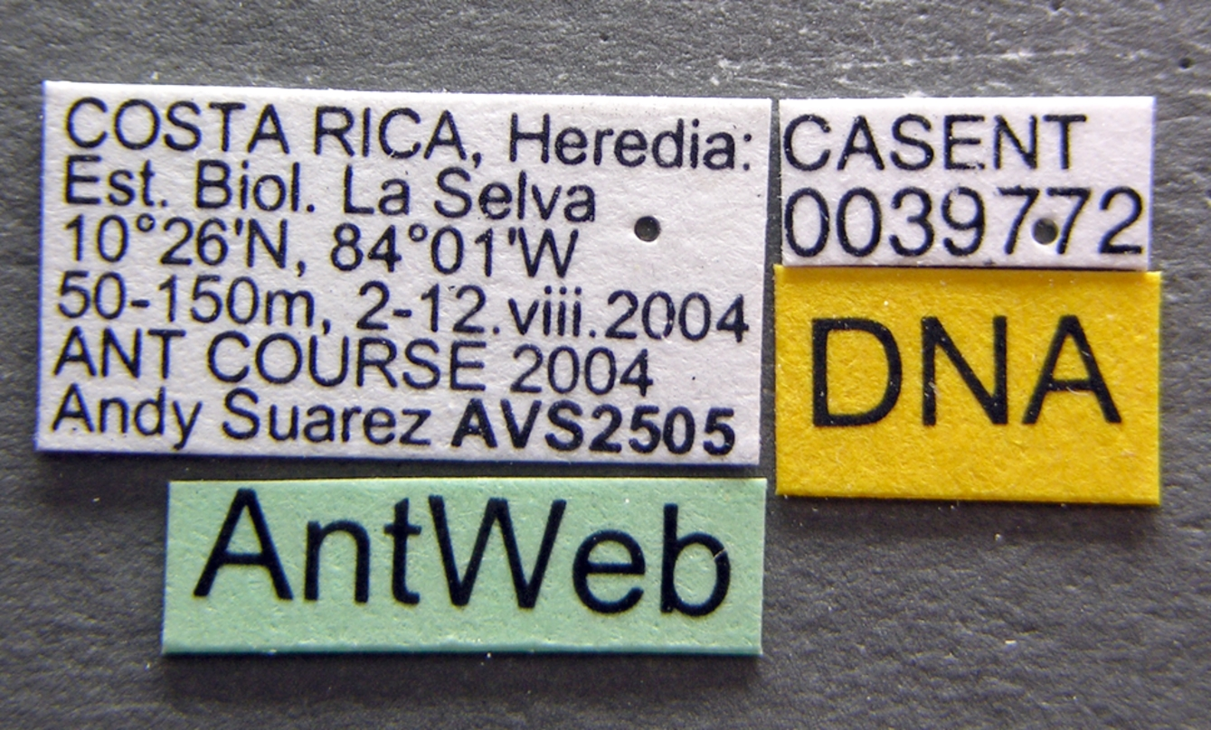 Label view of ant Acanthoponera minor specimen casent0039772.